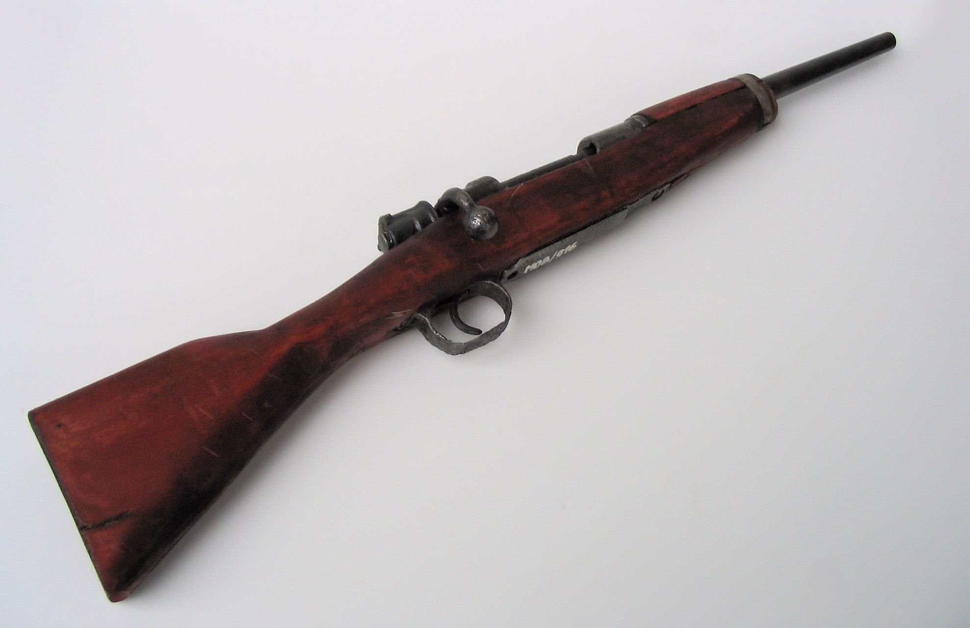 Mauser wz 98 kal. 7,92 mm, made by PFK in Warsaw, Poland (1925), sawed-off, the stock is replaced Aparat/Camera: Canon PowerShot A75